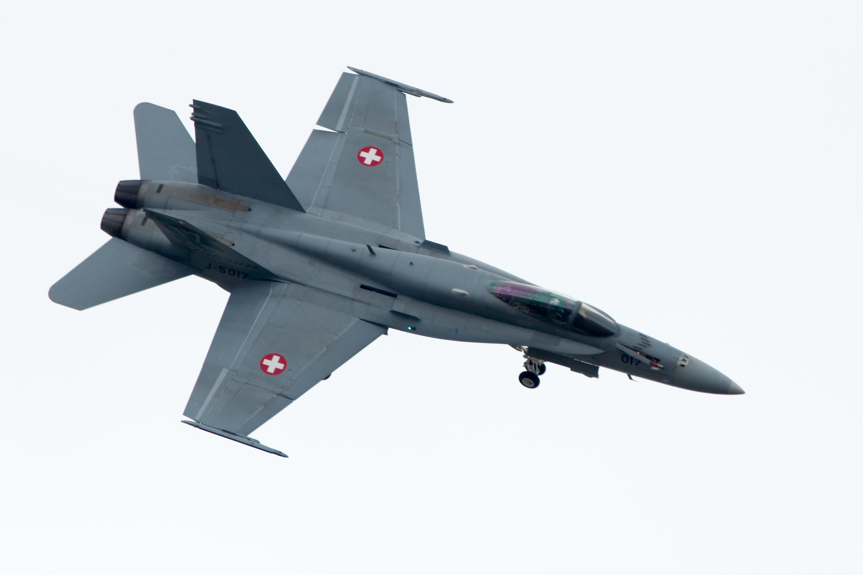 F/A-18 at ILA 2010